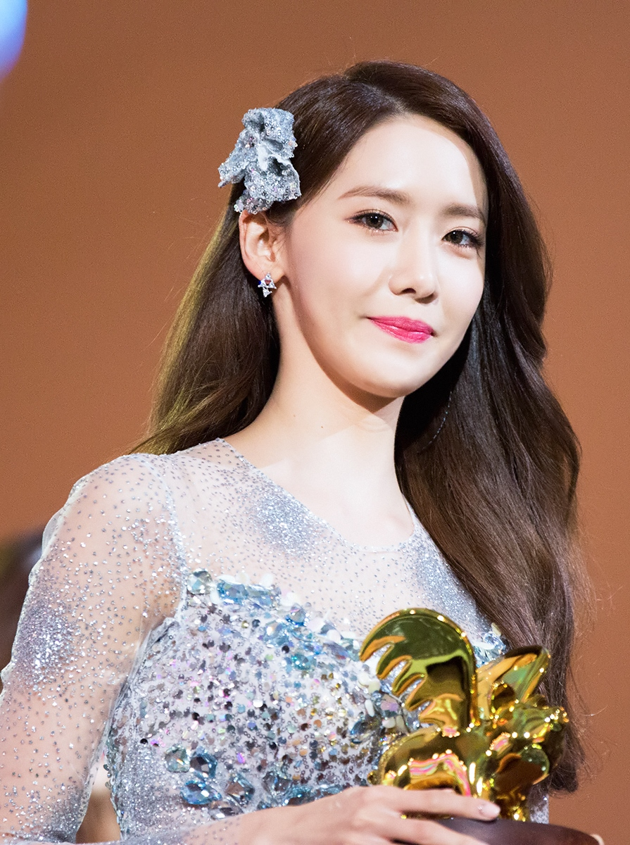 YoonA at Style Icon Asia on March 15, 2016.